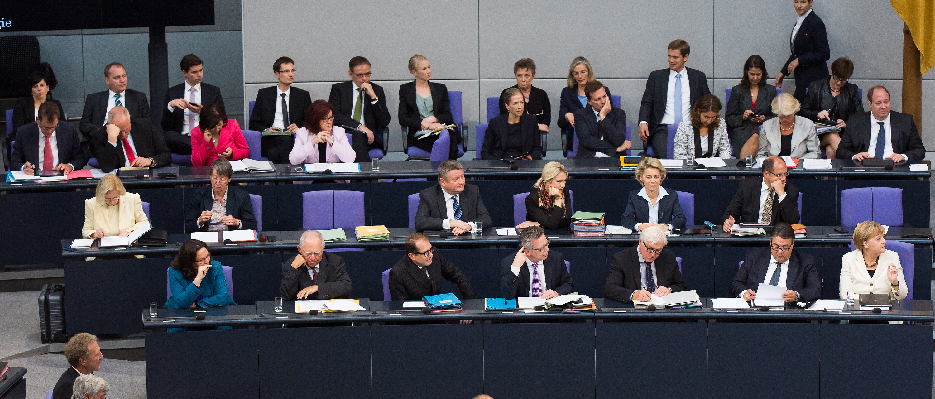 Picture taken during Wikipedia Bundestag project 2014. Third Merkel cabinet.